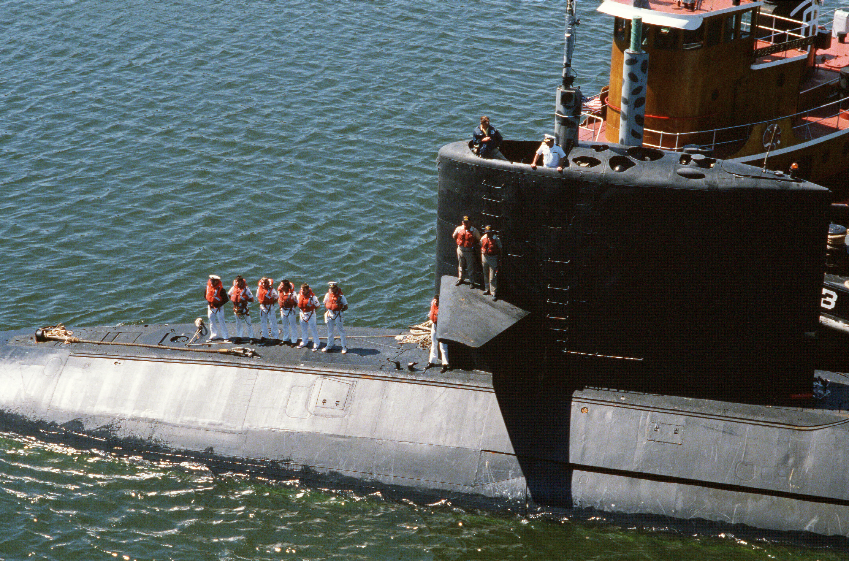 DF-ST-89-02248 A mooring party stands by on the deck of the damaged submarine USS BONEFISH (SS 582) as tug boats assist the ship into a berth. The BONEFISH became disabled when it experienced a mid-ocean engine problem. Location: NAVAL STATION, CHARLESTON